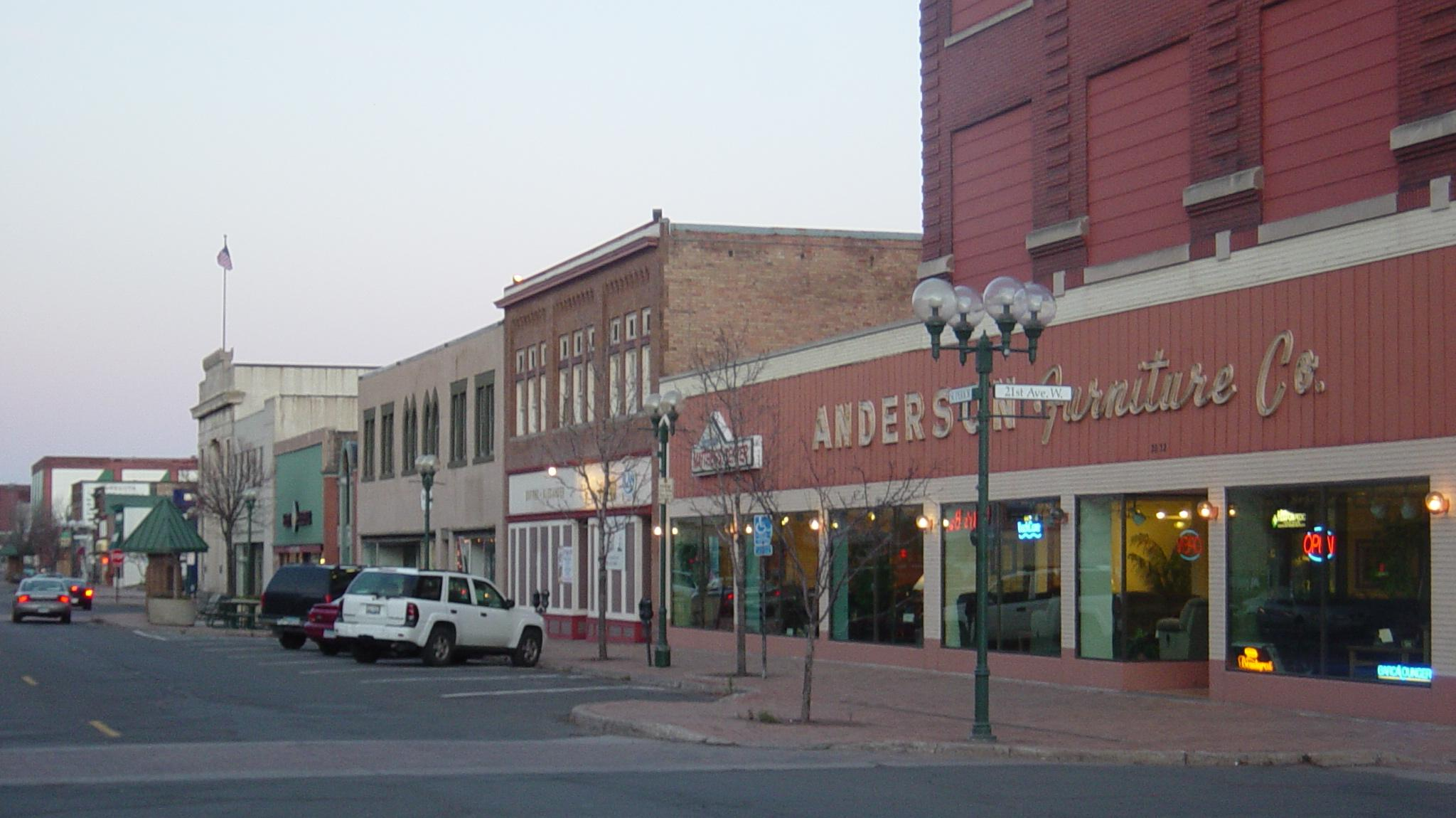 "Downtown" West End (Lincoln Park), in Duluth, MN, taken on November 10, 2005 by Jacob Norlund.